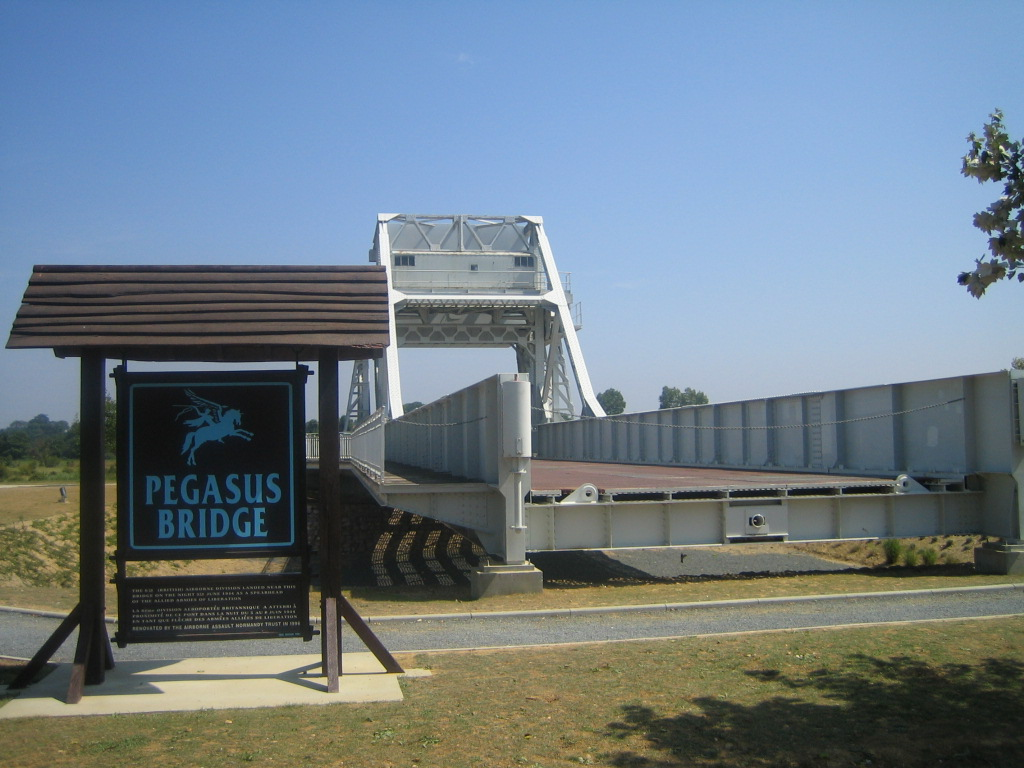 Original Pegasus Bridge, now in Pegasus Museum. Note the rivetted patch on the right wall of the bridge that shows where the bridge was extended after the War, before removal.